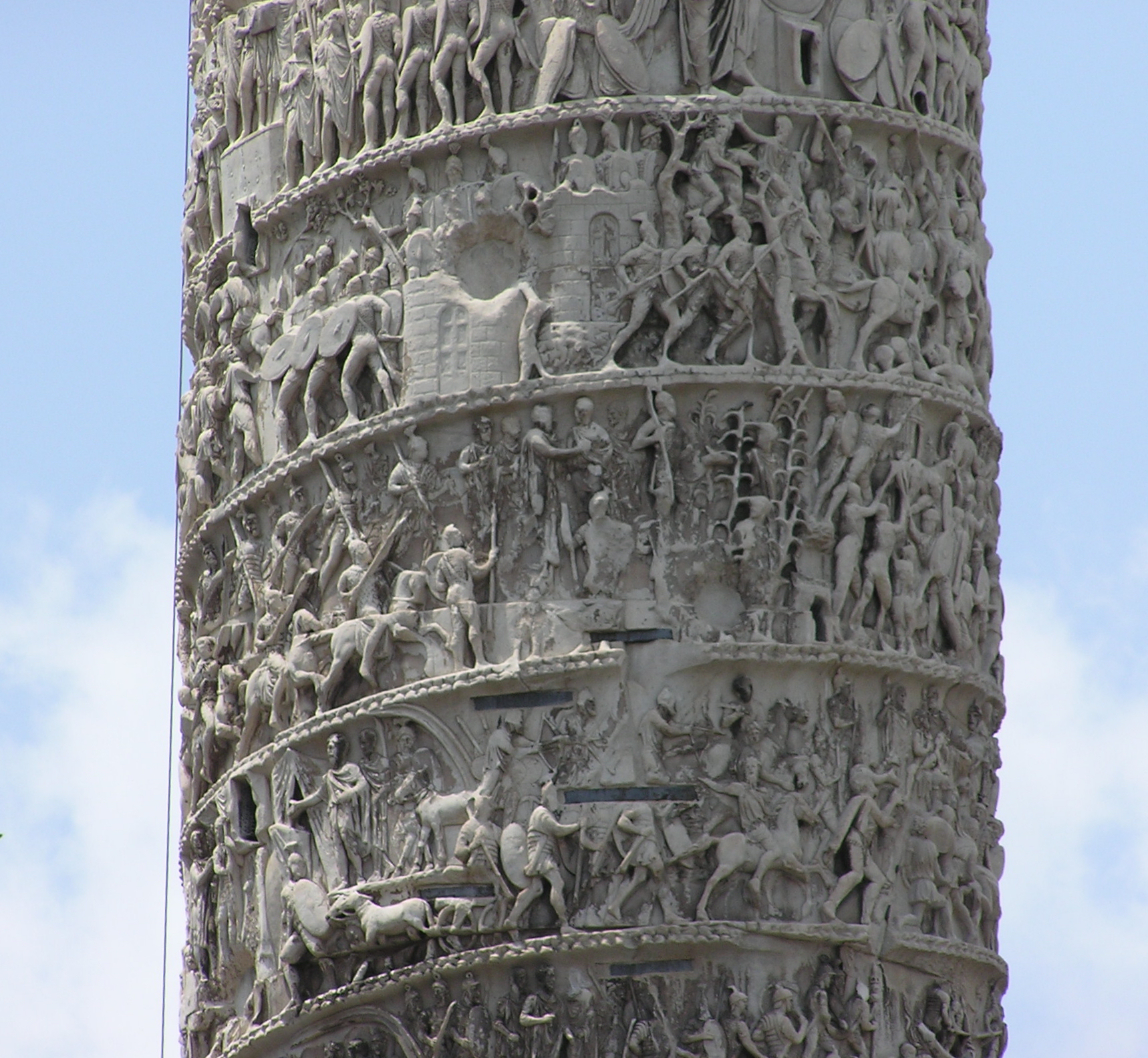 Detail from the Column of Marcus Aurelius, in Piazza Colonna, Rome, Italy. The four vertical slits are to allow light into the interior (the horizontal bars appear to be iron and are probably strengthening).